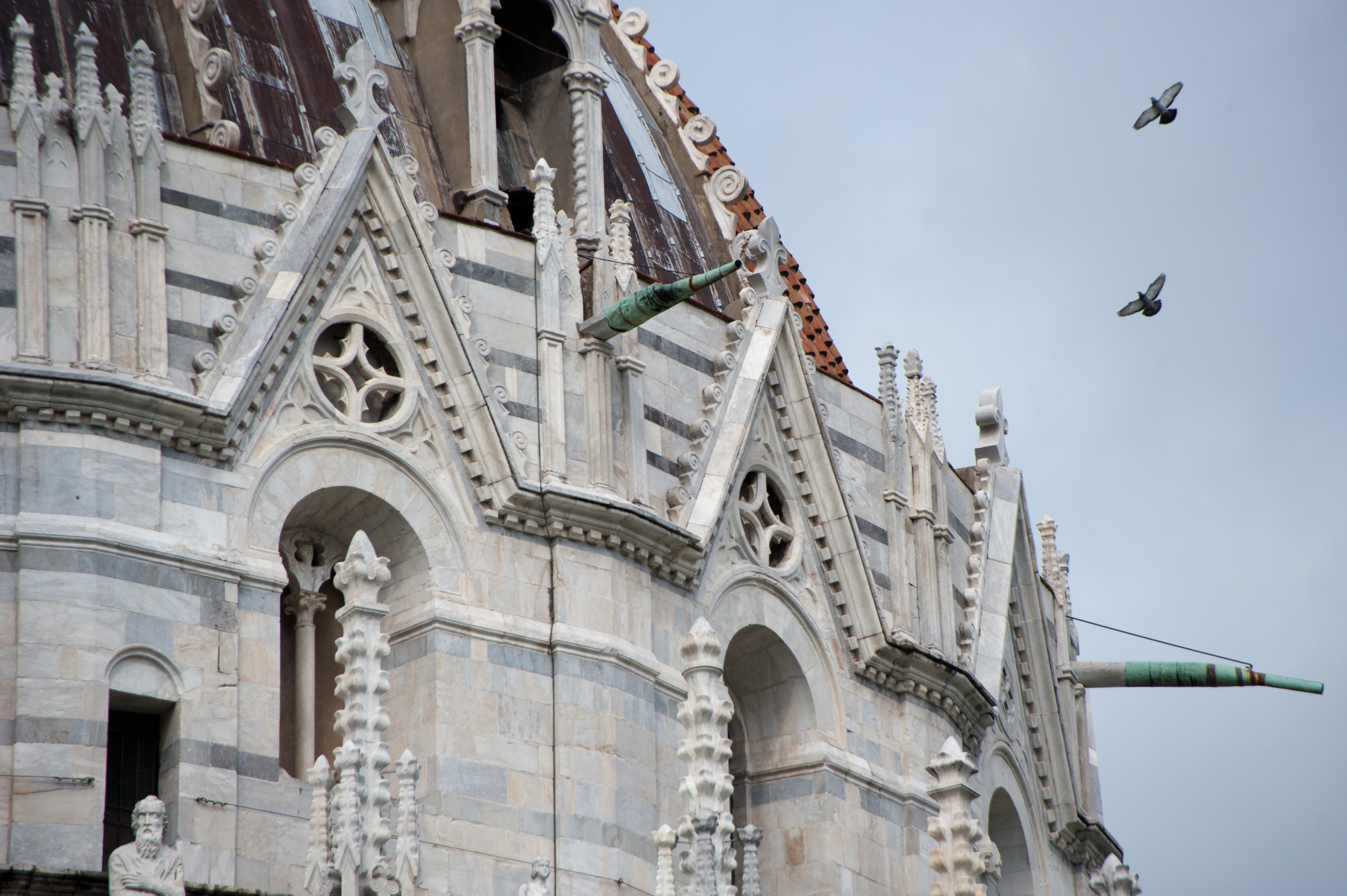 The Baptistry of St. John (close up view), Piazza dei Miracoli ("Square of Miracles"), Pisa, Tuscany, Central Italy.